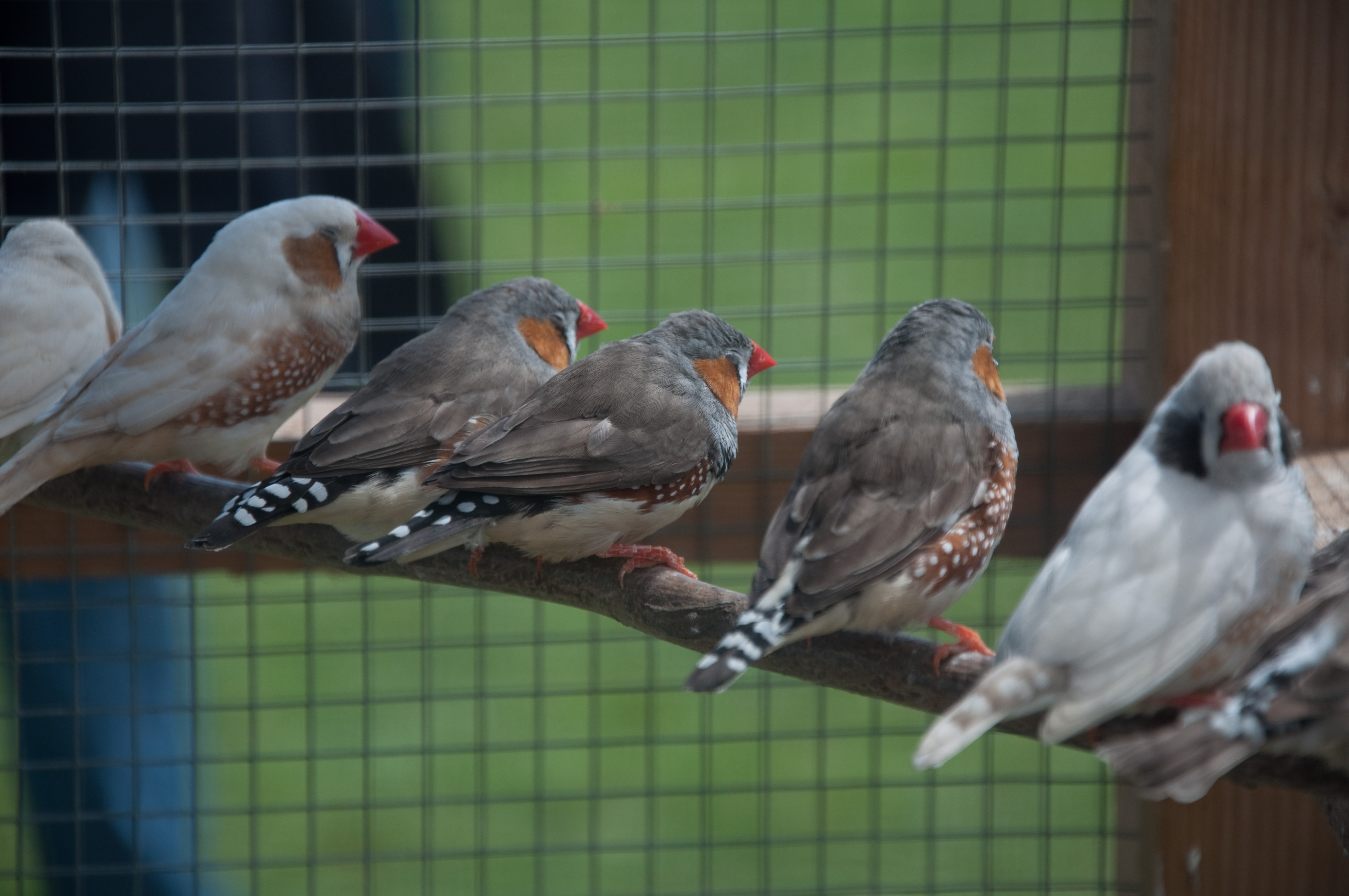 Zebra finches